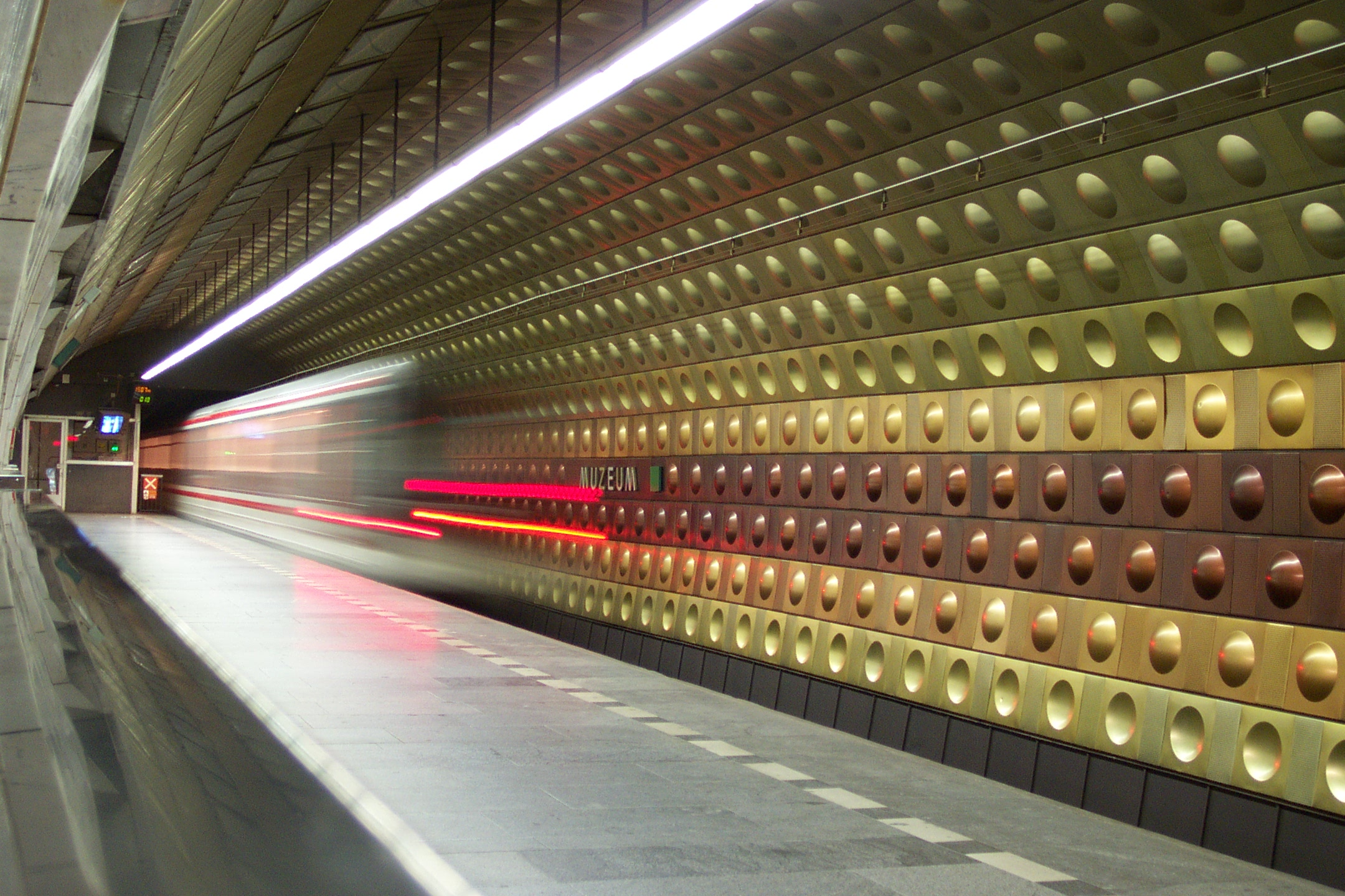 Metro station Muzeum